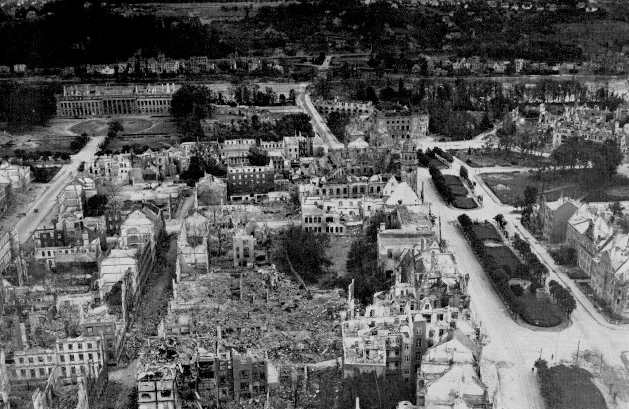 The destroyed city of Koblenz after World War II 1945